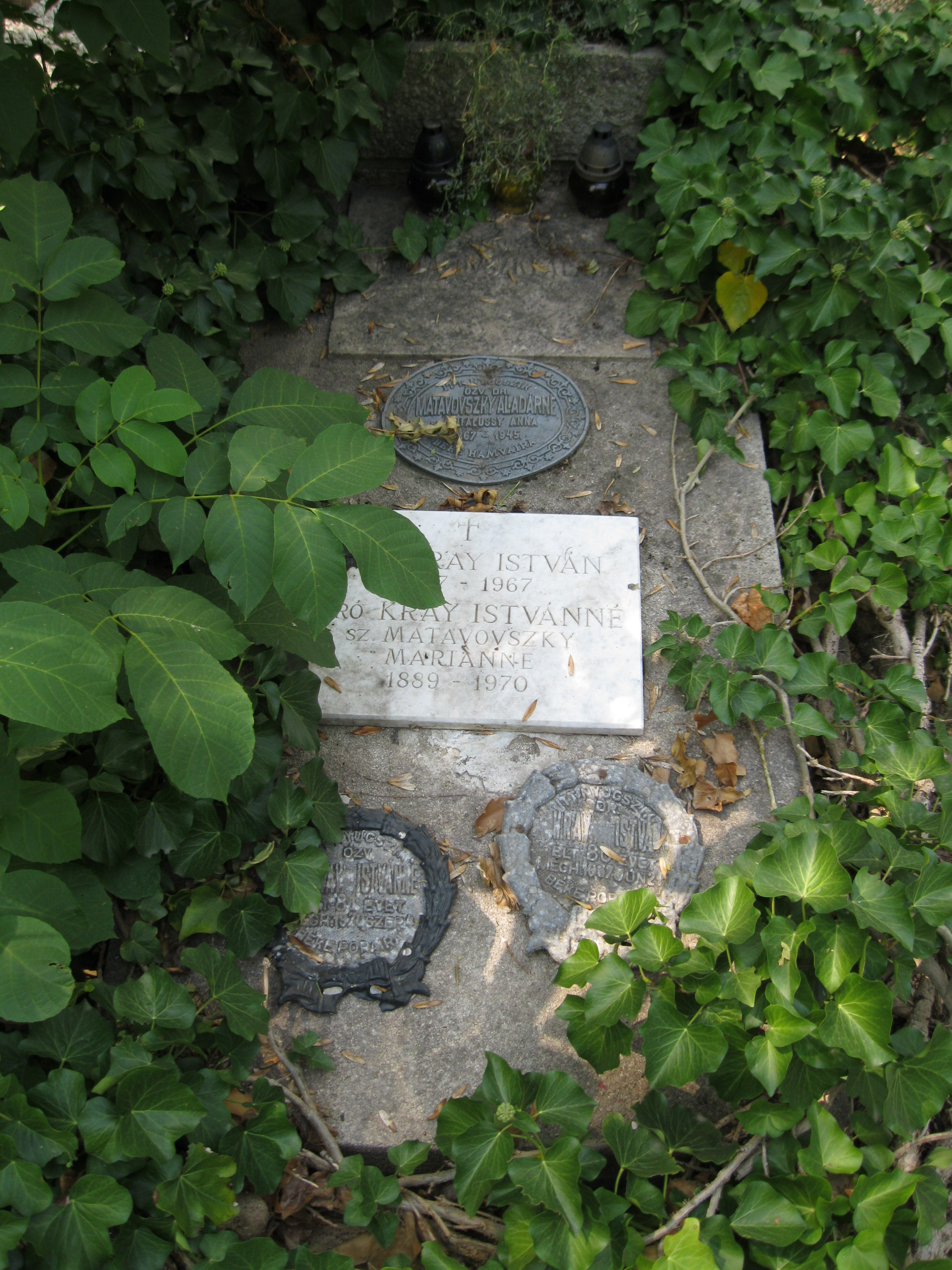 Tomb of István Kray in Farkasréti Cemetery [7/4-1-91].